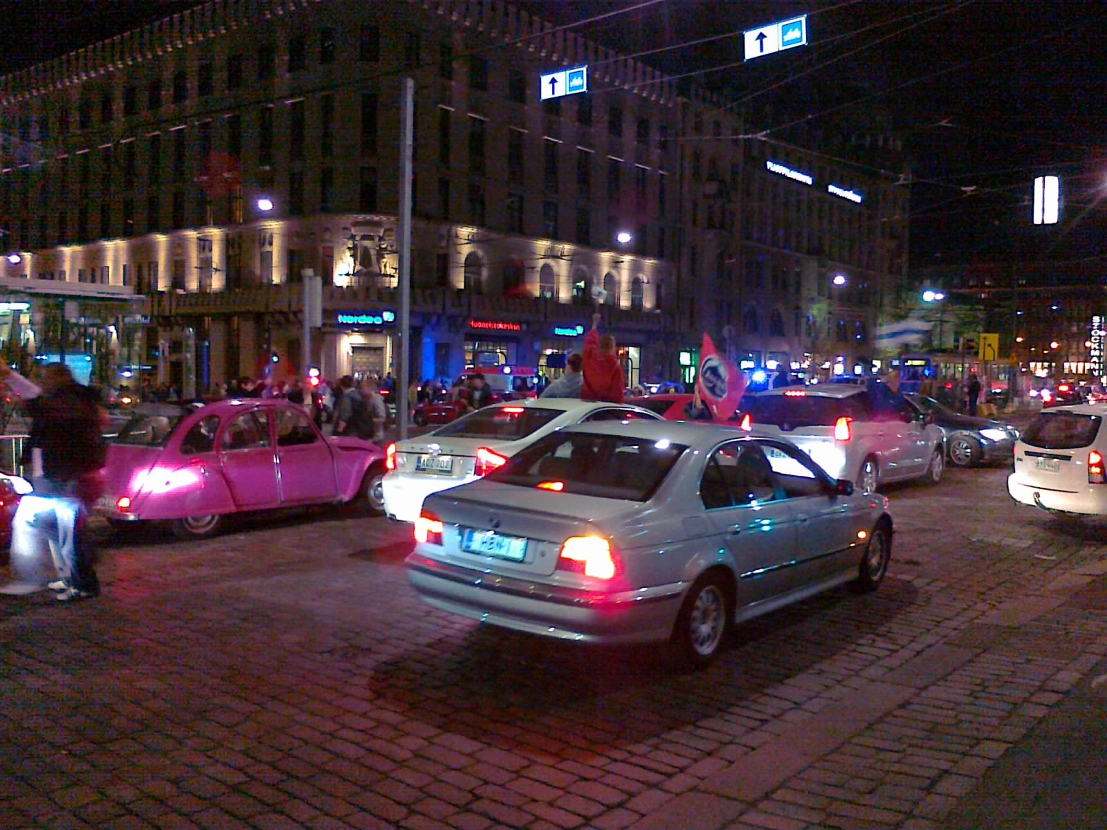 Celebration in Helsinki after 2011 Icehockey World Championships victory.